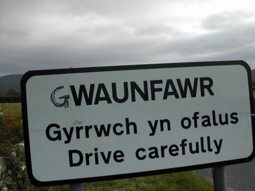 This image shows a graffito of a liguistic correction (of a mutation) on a village sign in Gwynedd.